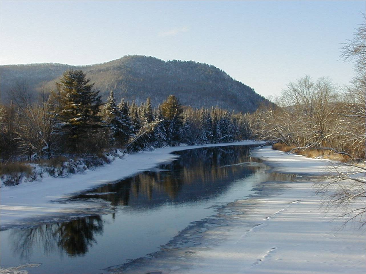 Magalloway River at Umbagog National Wildlife Refuge Credit: USFWS